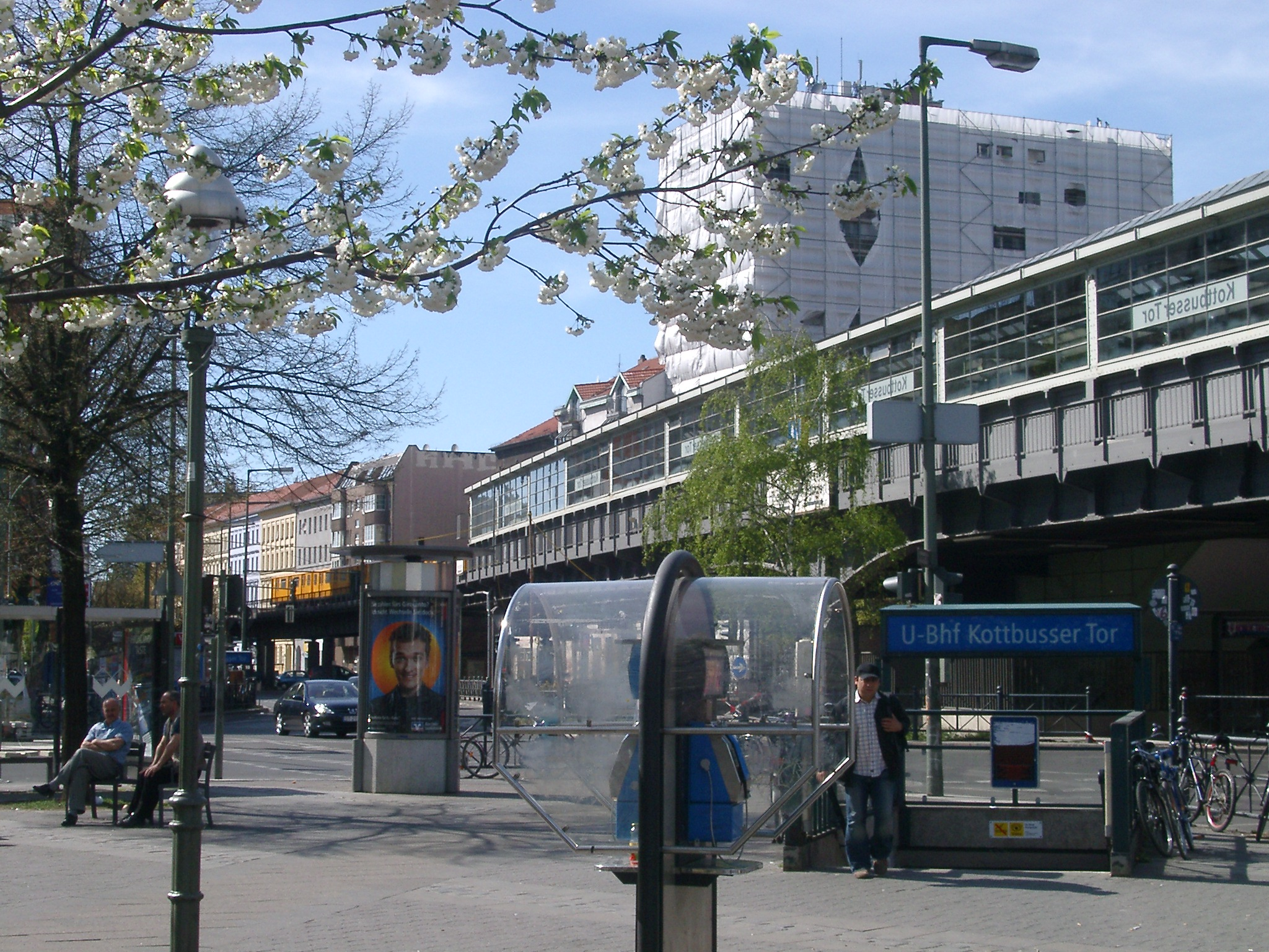 underground station Kottbusser Tor (underground drives above ground on this part of the line). Line: U1 (Berlin)